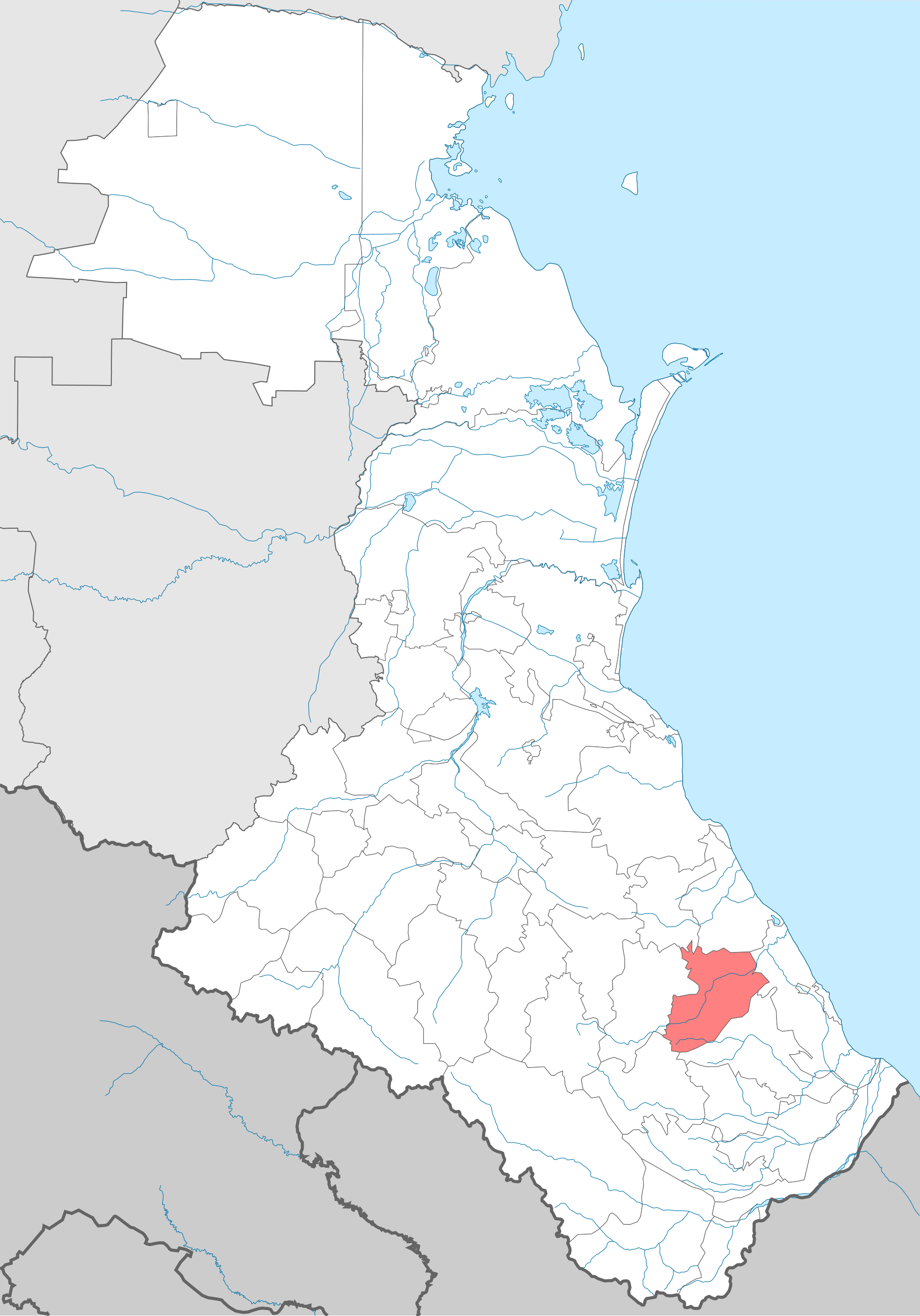 Kaytagsky district locator map